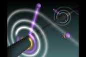 A ‘black hole’ for cold atoms. Laser cooled atoms are launched towards a freely suspended carbon nanotube charged to hundreds of volts. The atoms are attracted from large distance and spiral towards the tube under dramatic acceleration. Close to the nanotube, a captured atom is ripped apart as its electron is sucked into the tube, converting the atom into an ion that is ejected at high energy and detected